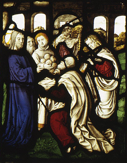 Miracle of the Loaves and Fishes, Flemish stained glass panel